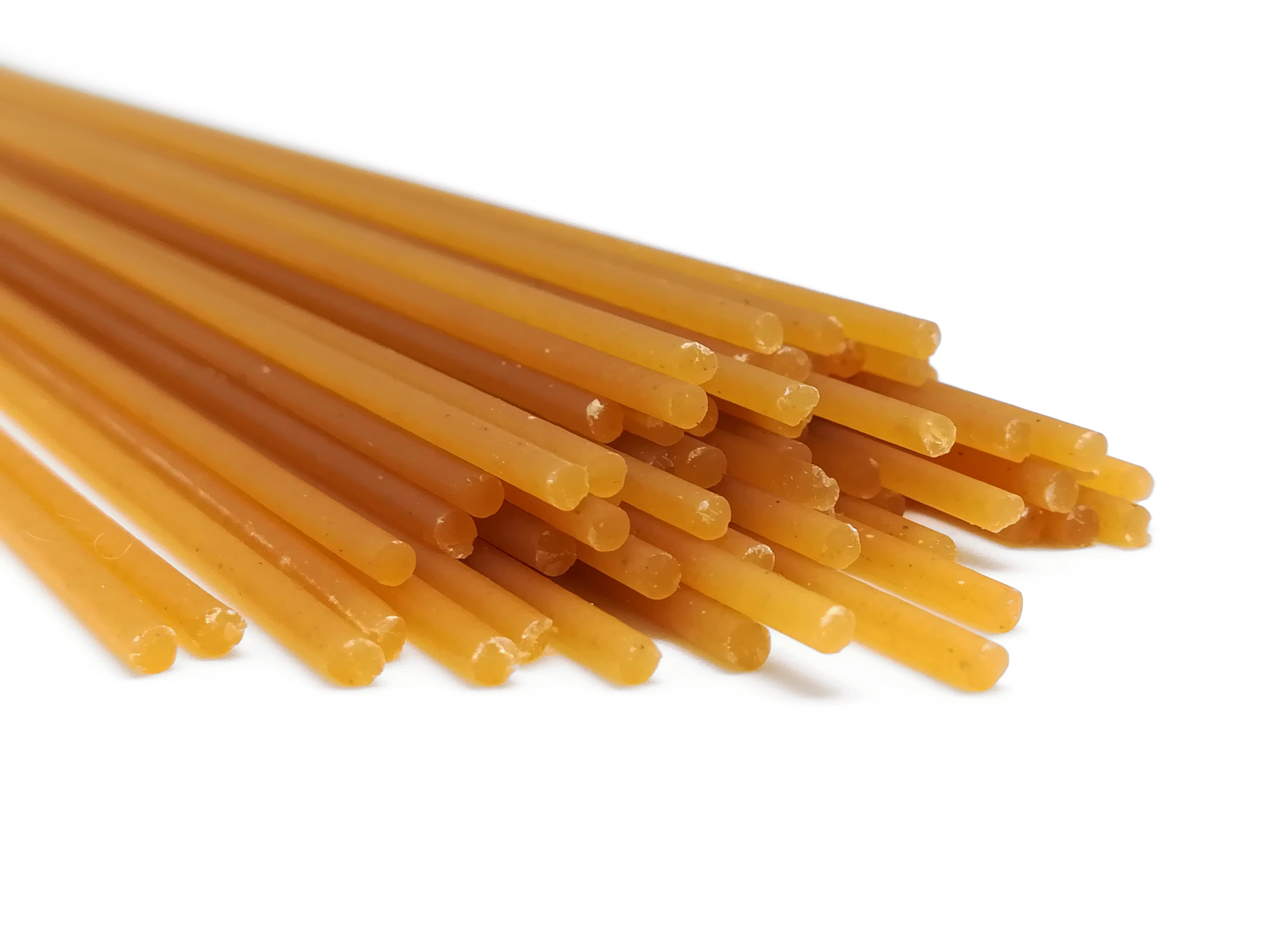 Bigoli are a type of Italian pasta, similar to spaghetti.